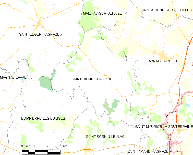 Map of French municipality Saint-Hilaire-la-Treille